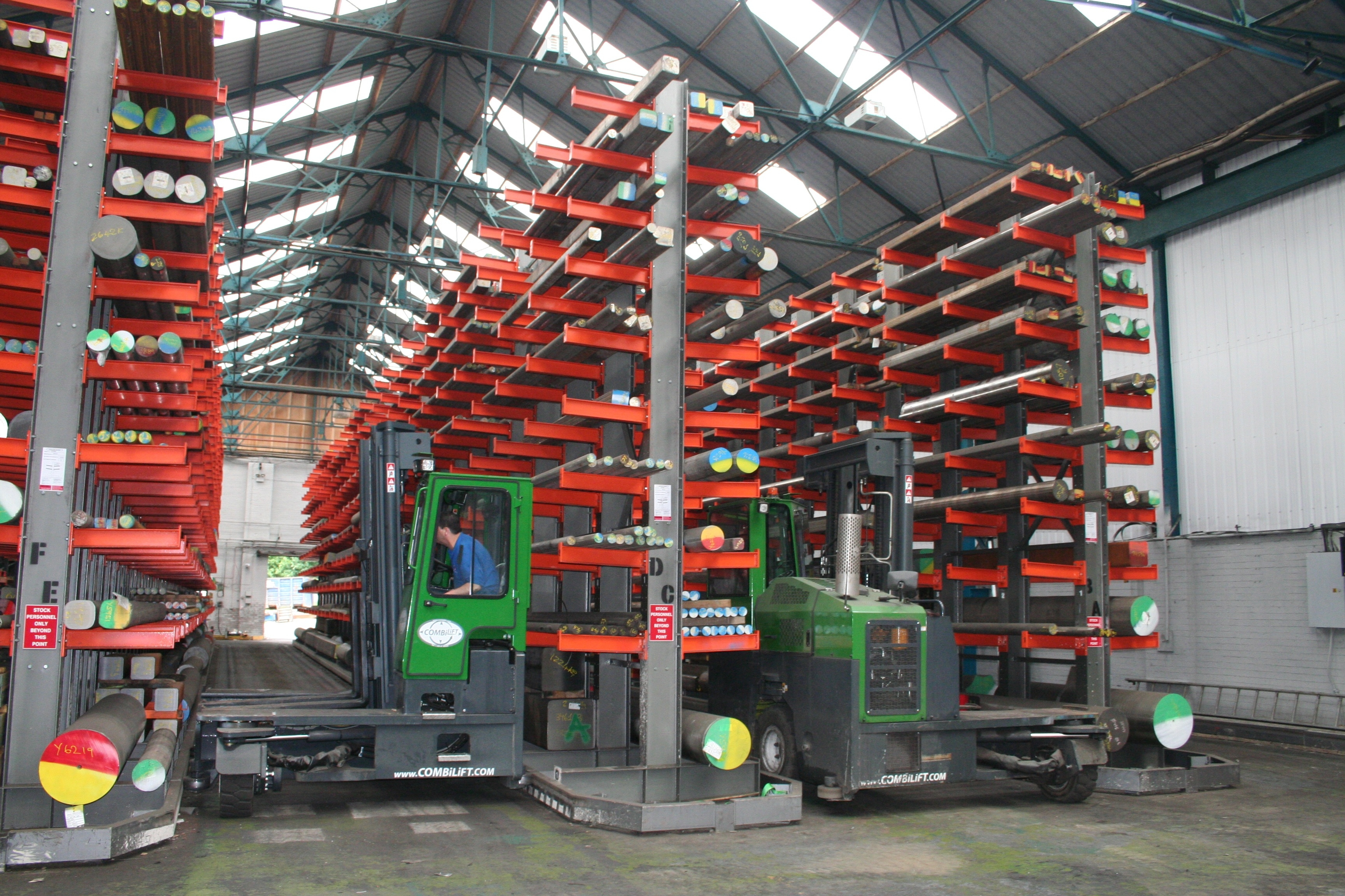 side loader narrow aisle